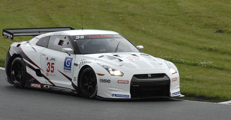 Michael Krumm at the wheel of a Nissan GT-R of FIA GT Championship 2009 in Oschersleben